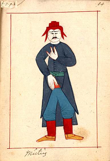 Mute — The 'tongueless' (dilsiz) messengers were used for confidential commissions. Cf nr 35. (Pictures from the Ralamb Costume Book, 1657)